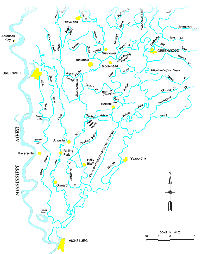 Map of the Yazoo River watershed — located in Mississippi. A major tributary is the Sunflower River. The image uploaded is modified from the original created by U. S. Army Corps of Engineers' Vicksburg District